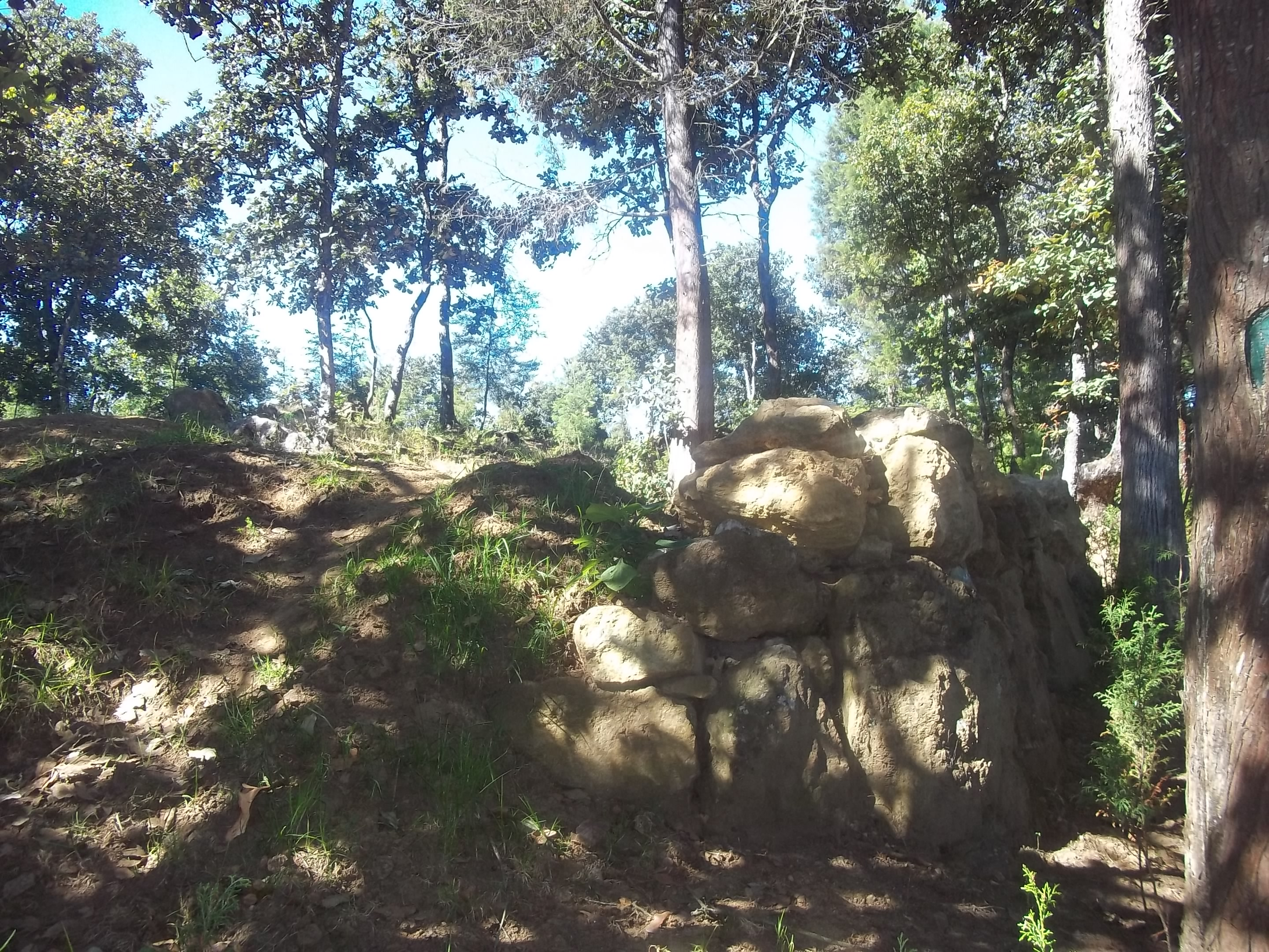 K'iaqbal, Cantel, Quetzaltenango, Guatemala. Maya ritual site with a couple of pre-Columbian scultpures. West Group.